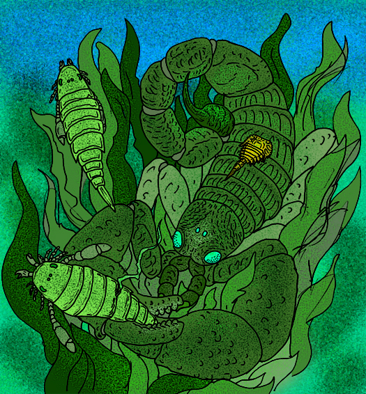 The extinct English giant scorpion, Brontoscorpio anglicus, capturing one of a pair of Nanahughmilleria norvegica eurypterids. A tiny horseshoe crab, Hemiaspis limuloides limuloides crawls on B. anglicus' back. From the Silurian (C) Stanton F. Fink